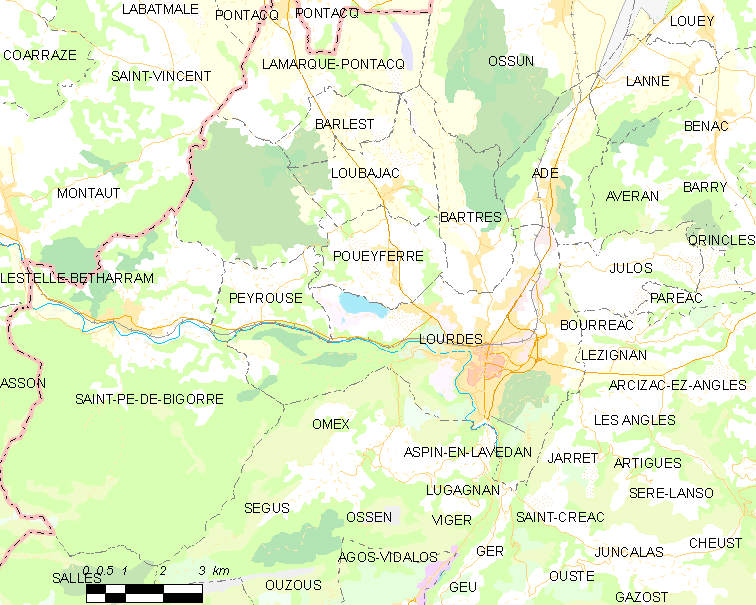 Map of French municipality